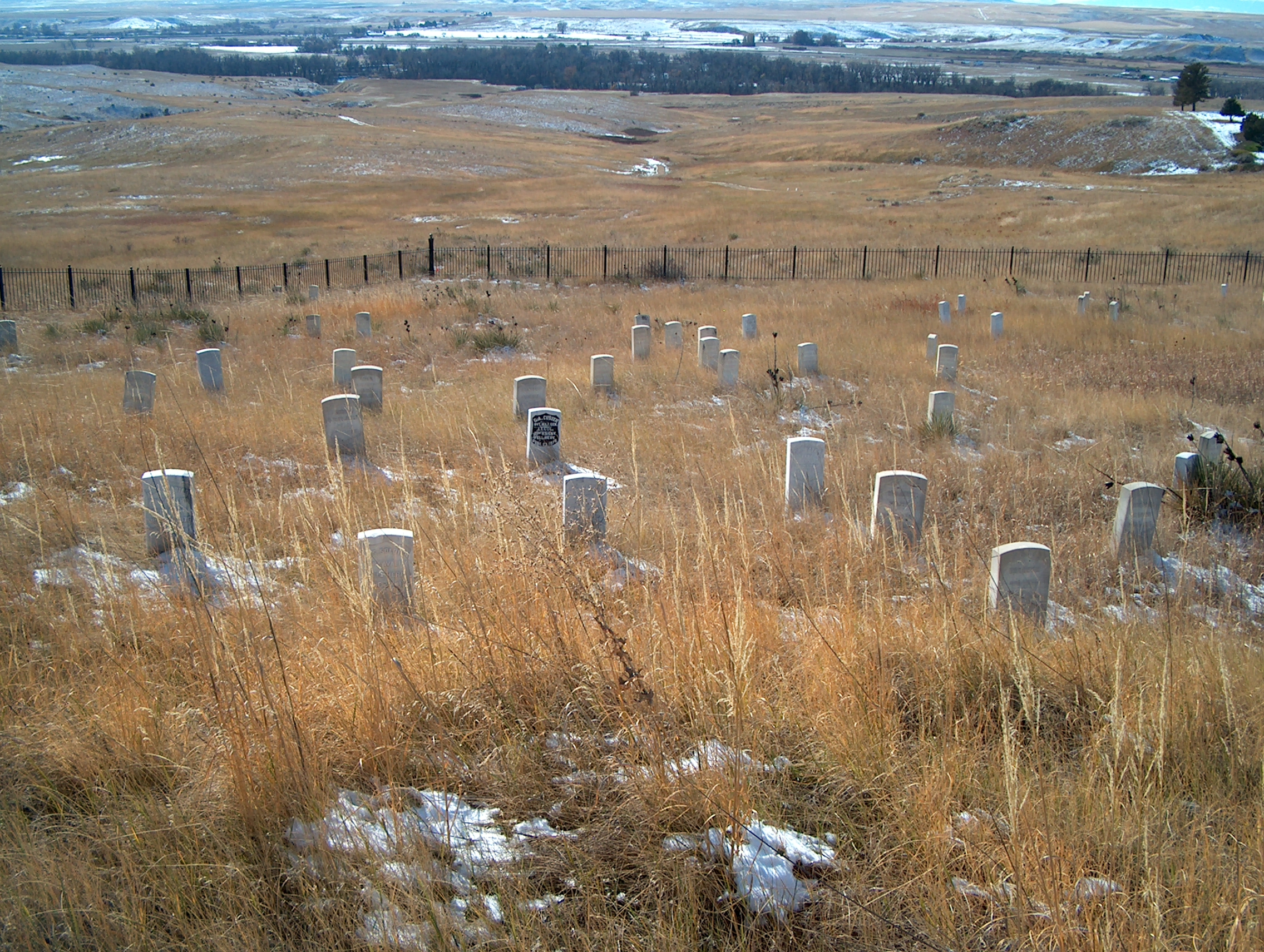 Last Stand Hill overlooking Little Bighorn River and Location of the Native American encampment on June 25, 1876. Photo taken November 2011.